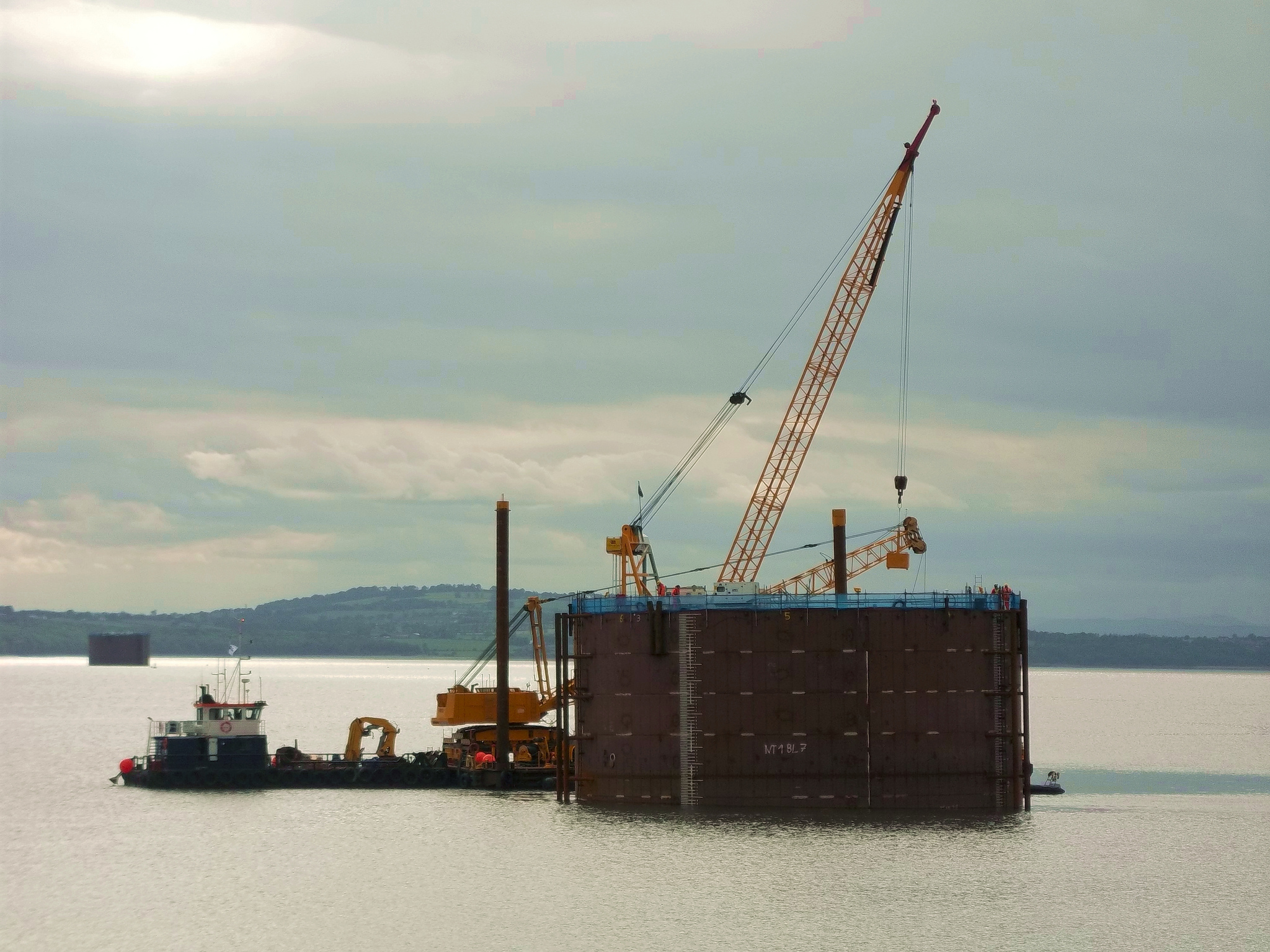 Forth Replacement Crossing Permanent caisson for North Tower in position on the bottom of the firth. The sediment underneath will be removed so that it rests on the solid rock beneath. Permanent caisson for South Tower is visible in background parked upstream (i.e. not in final position).